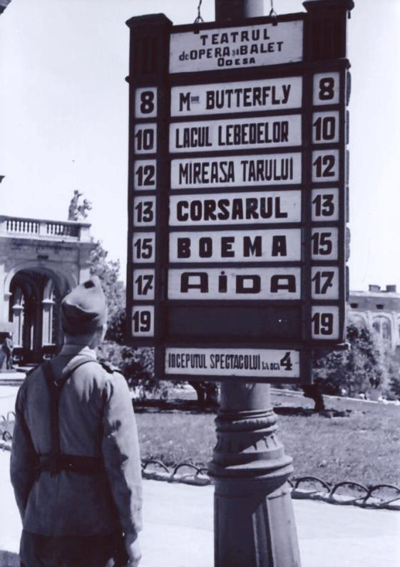 Odessa Opera Theater program. Circa 1942. Odessa. District Transnistria